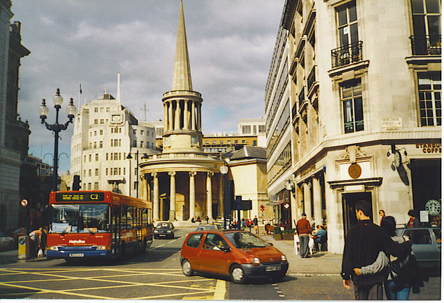 A view of Langham Place, London, looking north toward All Souls Church.